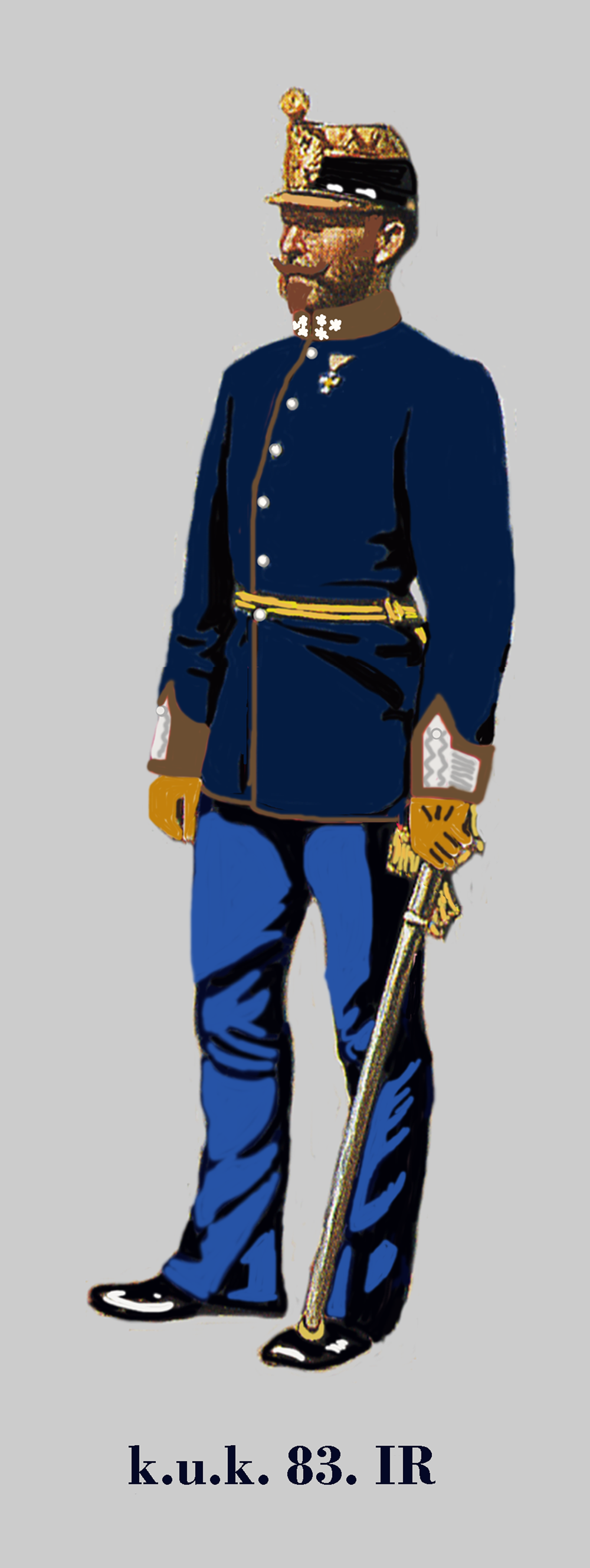 Captain of the Austria-Hungarian (k.u.k.). 83rd hungarian Infantry Regiment in Parade dress 1914